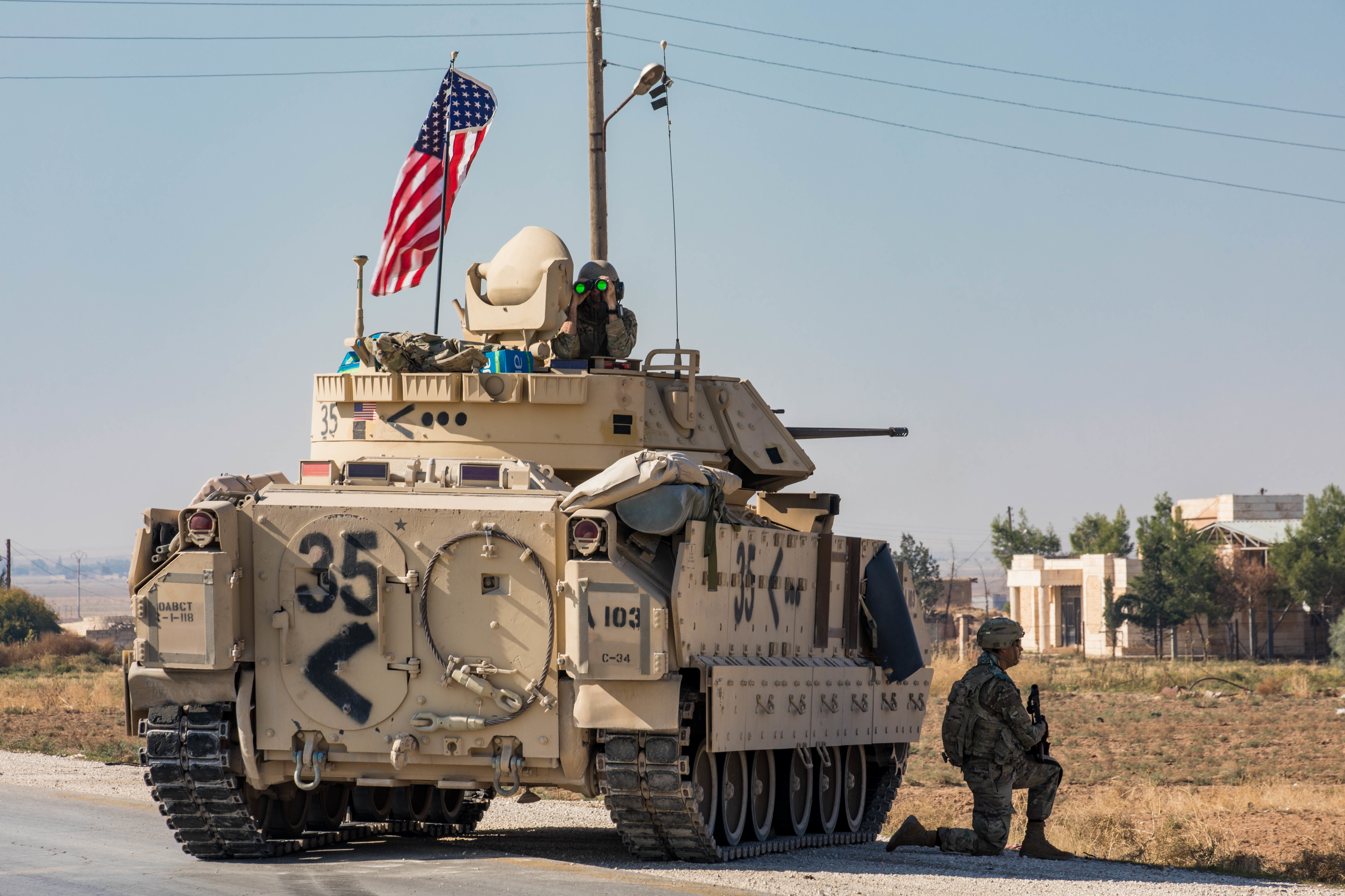 U.S. Soldiers in the 4th Battalion, 118th Infantry Regiment, 30th Armored Brigade Combat Team, North Carolina Army National Guard, attached to the 218th Maneuver Enhancement Brigade, South Carolina Army National Guard, provide M2A2 Bradley Fighting Vehicles for support to Combined Joint Task Force-Operation Inherent Resolve (CJTF-OIR) eastern Syria Nov. 10, 2019. The mechanized infantry troops will partner with Syrian Democratic Forces to defeat ISIS remnants and protect critical infrastructure in eastern Syria. (U.S. Army Reserve photo by Spc. DeAndre Pierce)